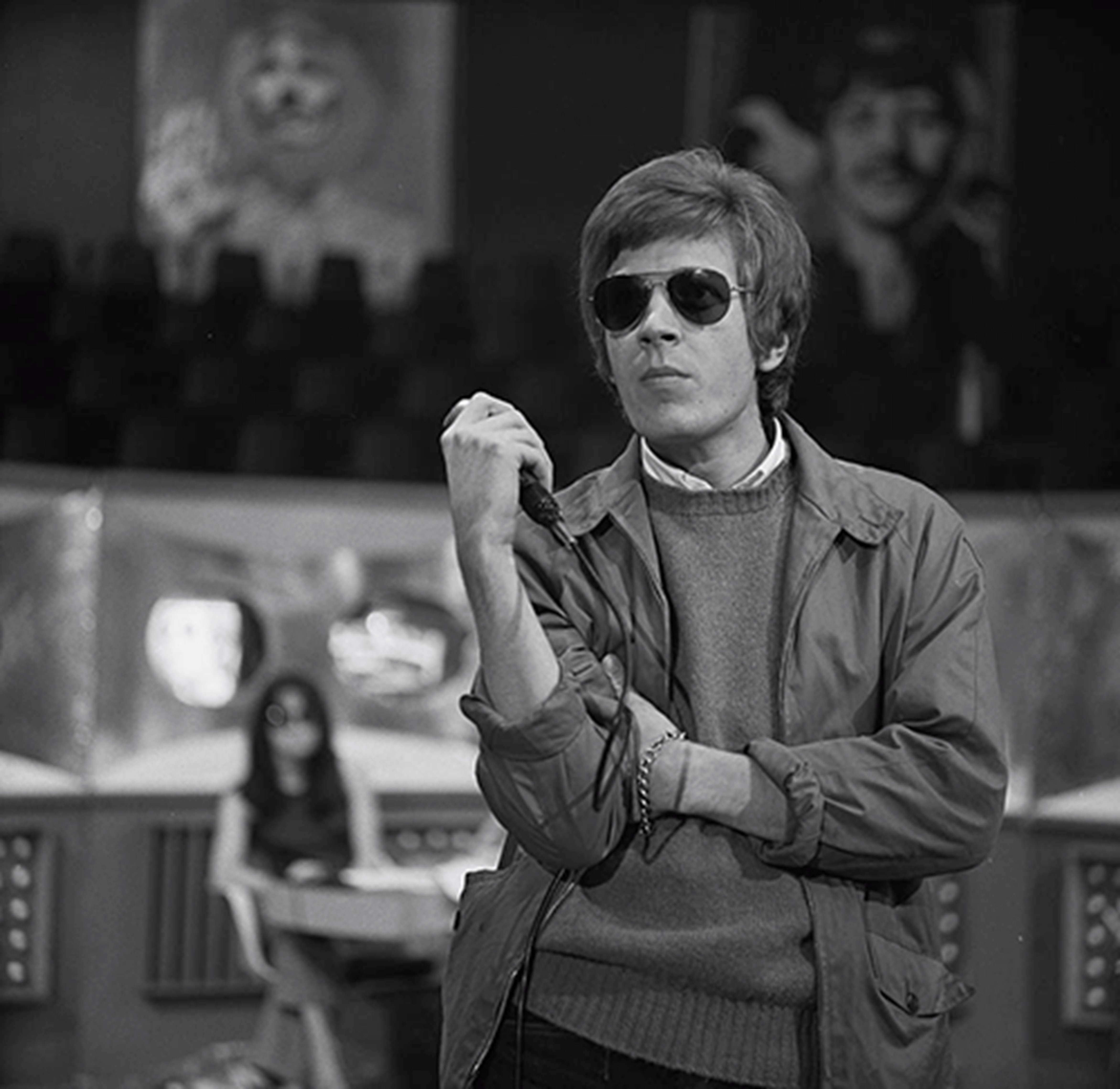 Singer Scott Walker recording for Dutch TV programme Fenklup, 7 June 1968 (broadcast 5 July 1968). Girl in the background: presenter Sonja Barend.